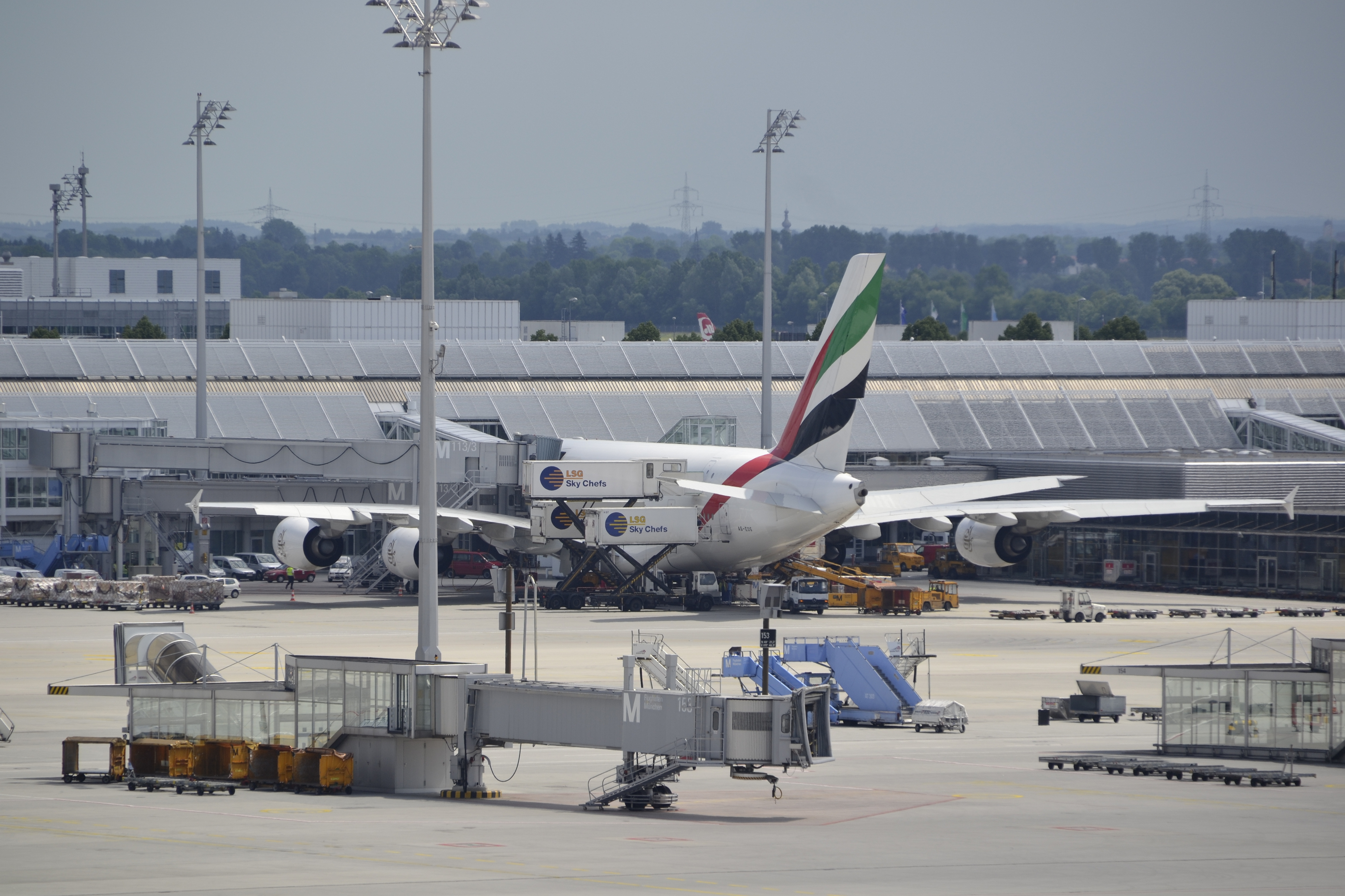 An Emirates Airbus A380 (A6-EDS) at Terminal 1 (Munich Airport), May 2012.